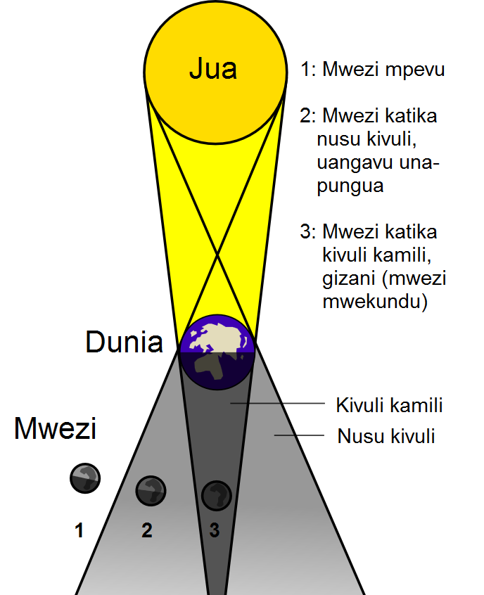 swahili labelled version of Lunar_eclipse-fr.svg Kiswahili: Hatua za kupatwa kwa Mwezi katika kivuli cha Dunia